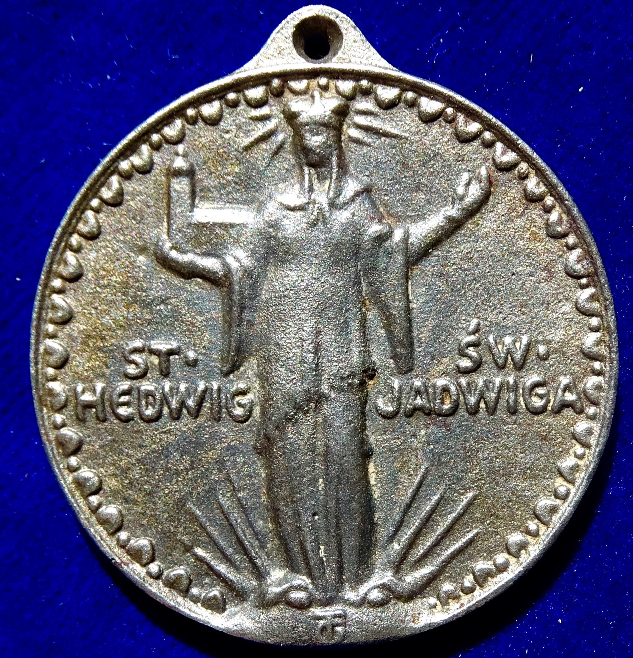 Cast iron, d. = 39 mm. The Upper Silesia plebiscite was a plebiscite mandated by the Versailles Treaty and carried out in March 1921 to determine a section of the border between Weimar Germany and Poland. Since the end of WW2 the whole of Upper Silesia is part of Poland. Saint Hedwig of Silesia, 1174 Andechs Castle, Bavaria - 1243 Trzebnica Abbey, Silesia, Poland 2 lines divided by Saint Hedwig of Silesia: "ST. HEDWIG SW. JADWIGA"/ 6 lines in German above date: "OBER SCHLESIER BEDENKET AUS DEUTSCHLAND KAM EUCH DAS CHRISTENTUM"; 6 lines in Polish below date: GÓRNOSLAZACY POMNIJCIE NA TO ZE Z NIEMIEC OTRZYMALISCIE CHRZESCIAN STWO". Jaschke-Maercker 2410. Medallist: Monogram TG (Philipp Theodor von Gosen), 1873 Augsburg - 1943 Breslau. Condition : UNCIRCULATED.